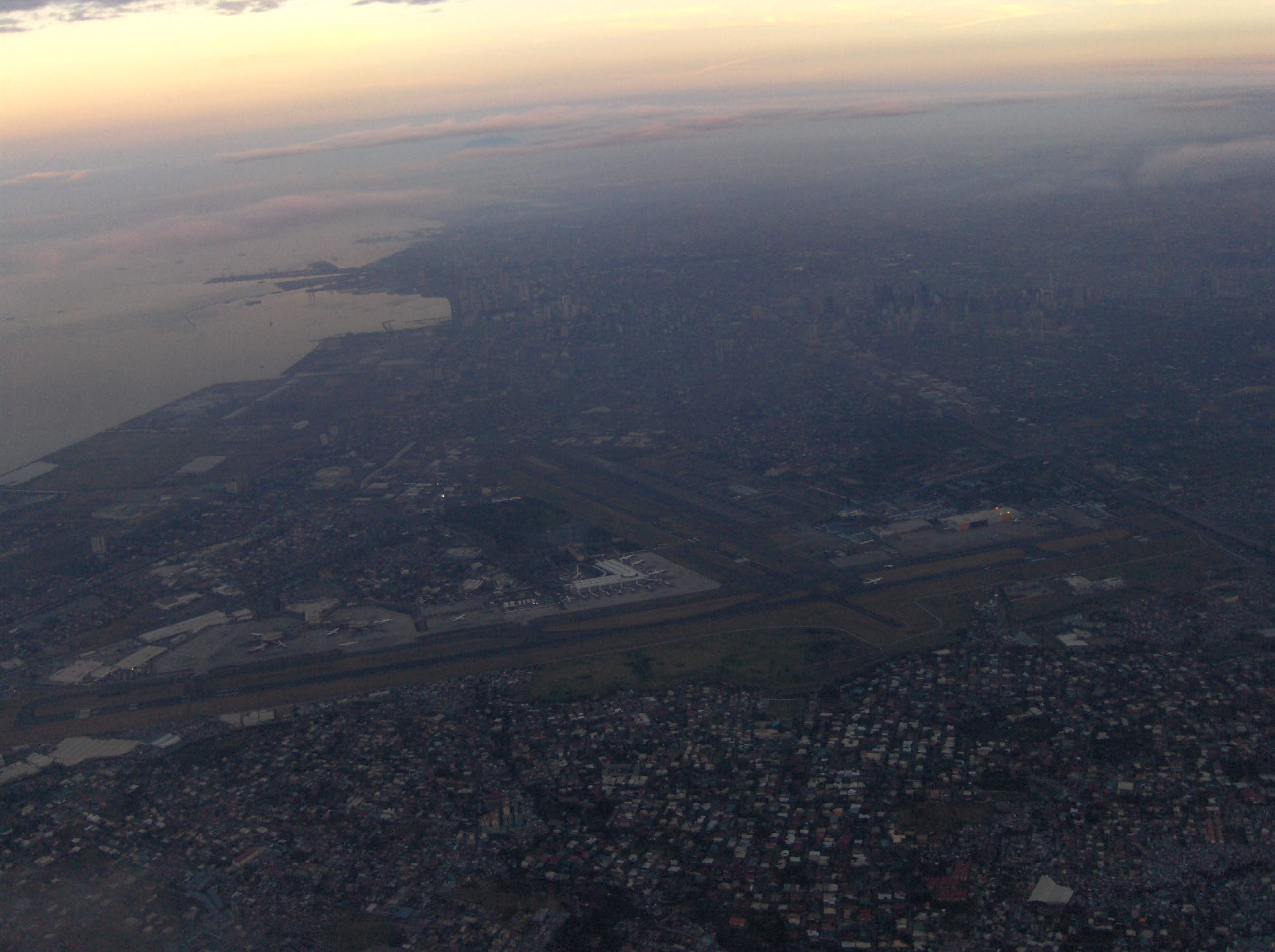 Ninoy Aquino International Airport in Manila from the air.